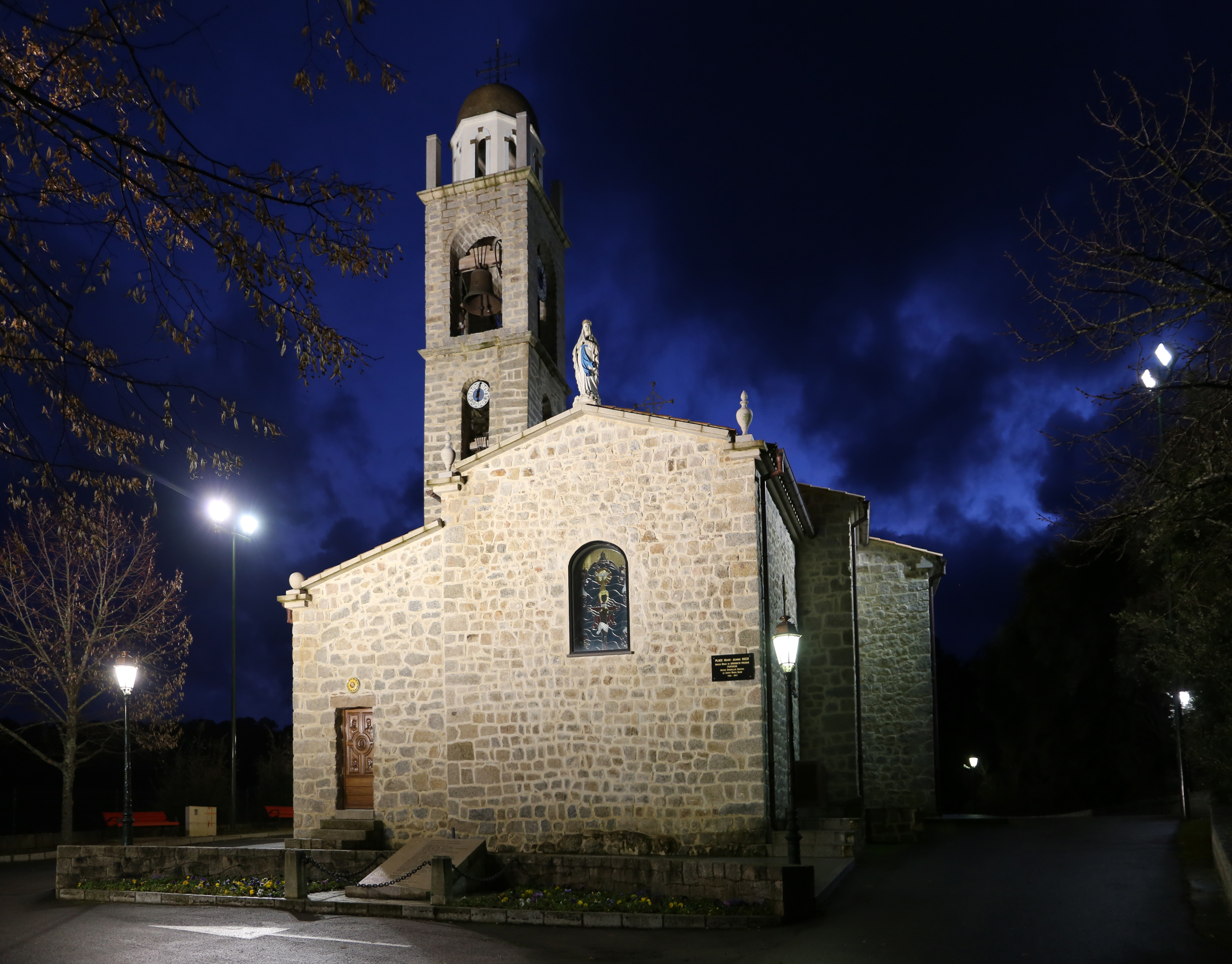 Église Saint-Césaire de Grosseto-Prugna